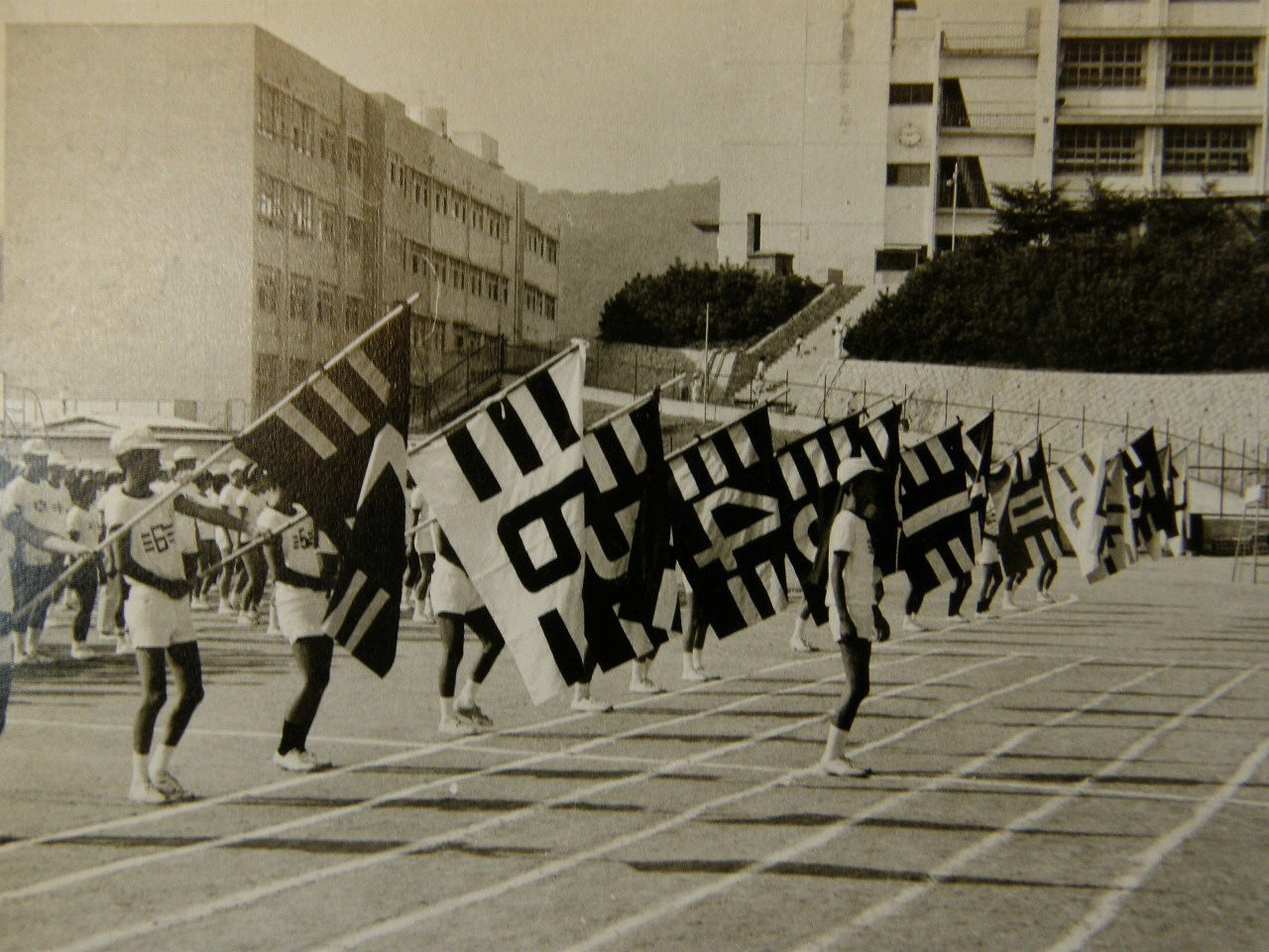 1972hibarigaoka Junior high school Athletic meet